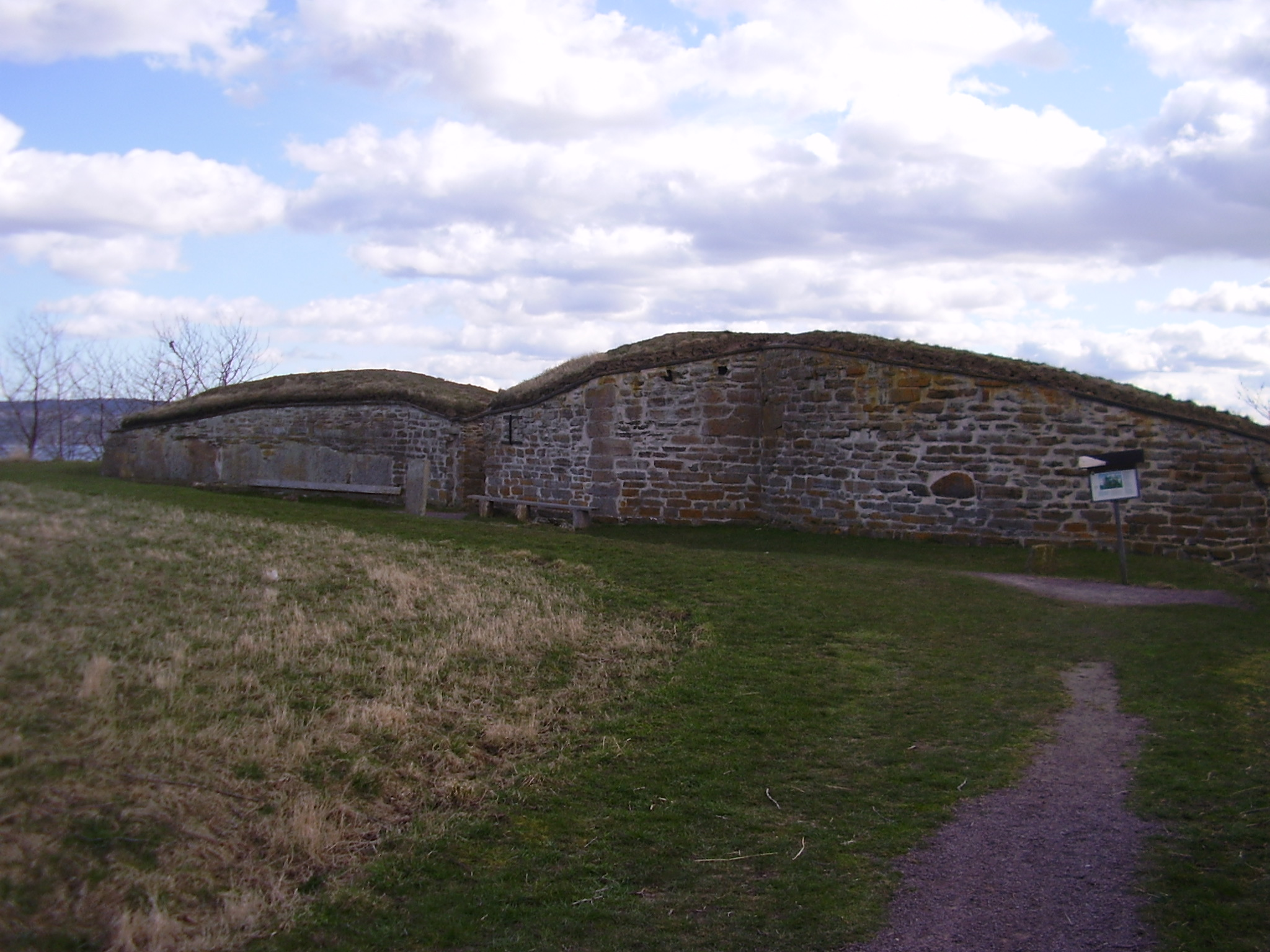 The ruin of Näs castle, on the island of Visingsö in lake Vättern, Sweden.